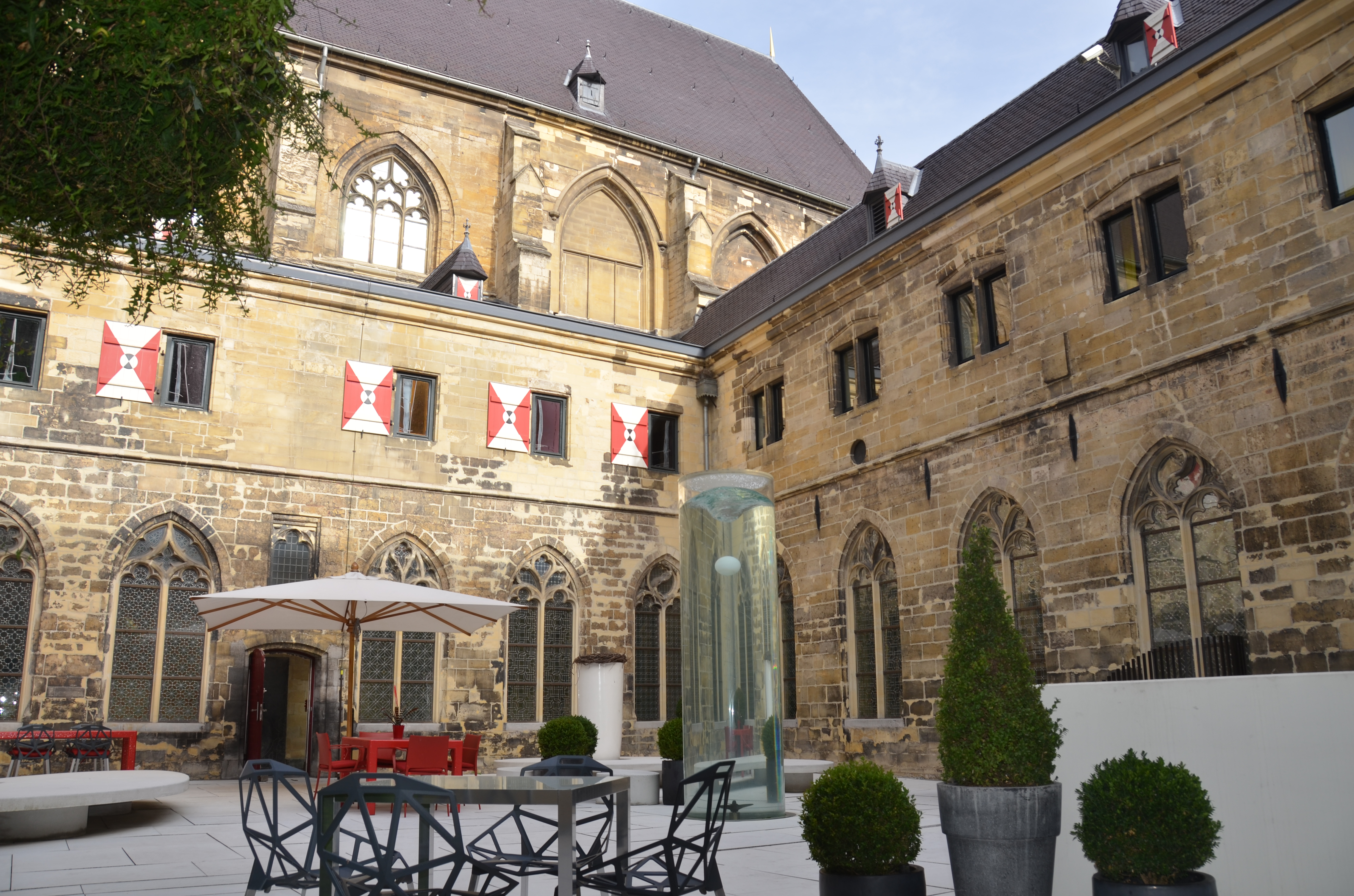 Kruisherenhotel patio with water art in the ancient monastry building